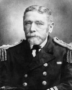 John Moresby